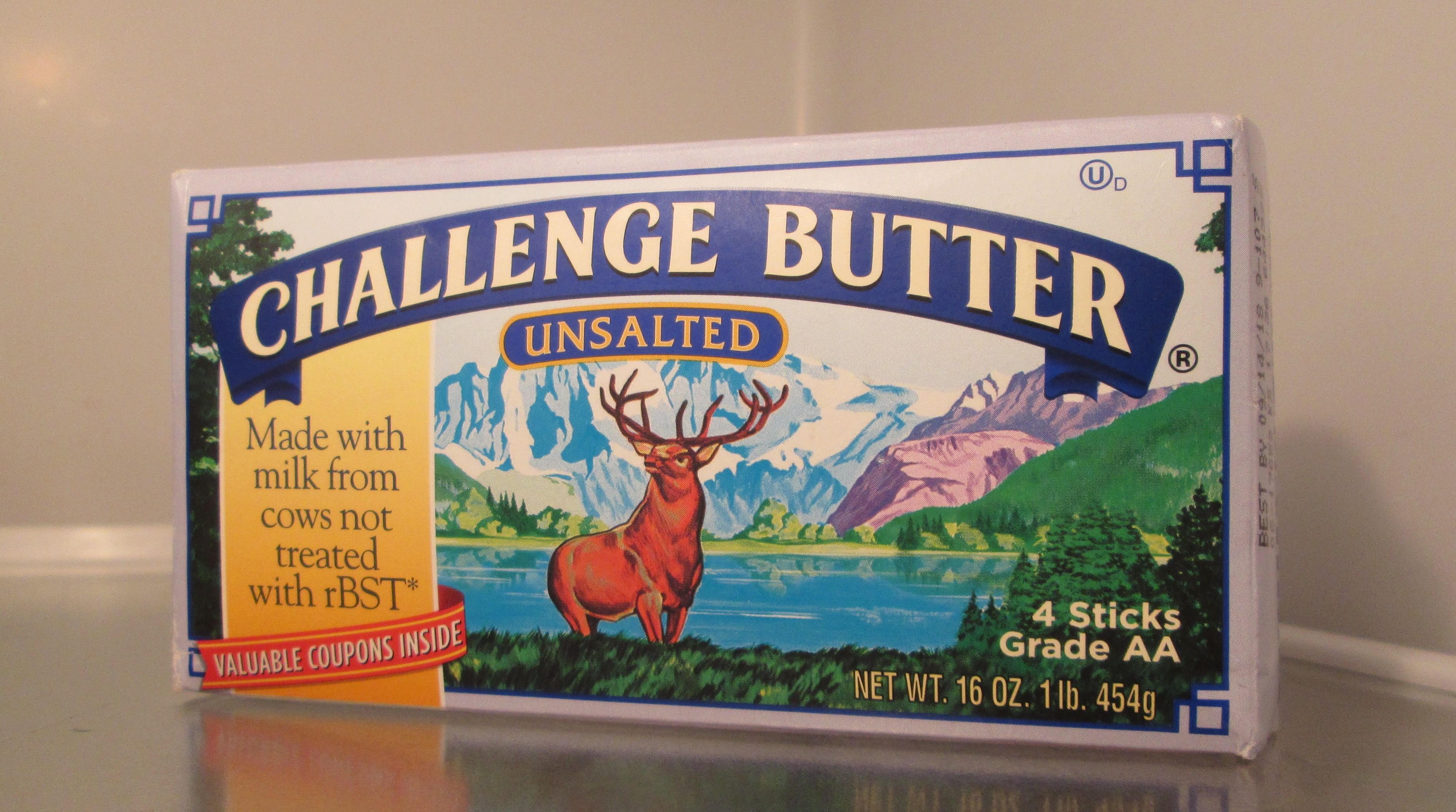 Challenge brand butter carton, year 2018